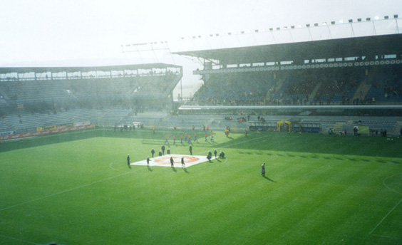 Own picture, November 2002.